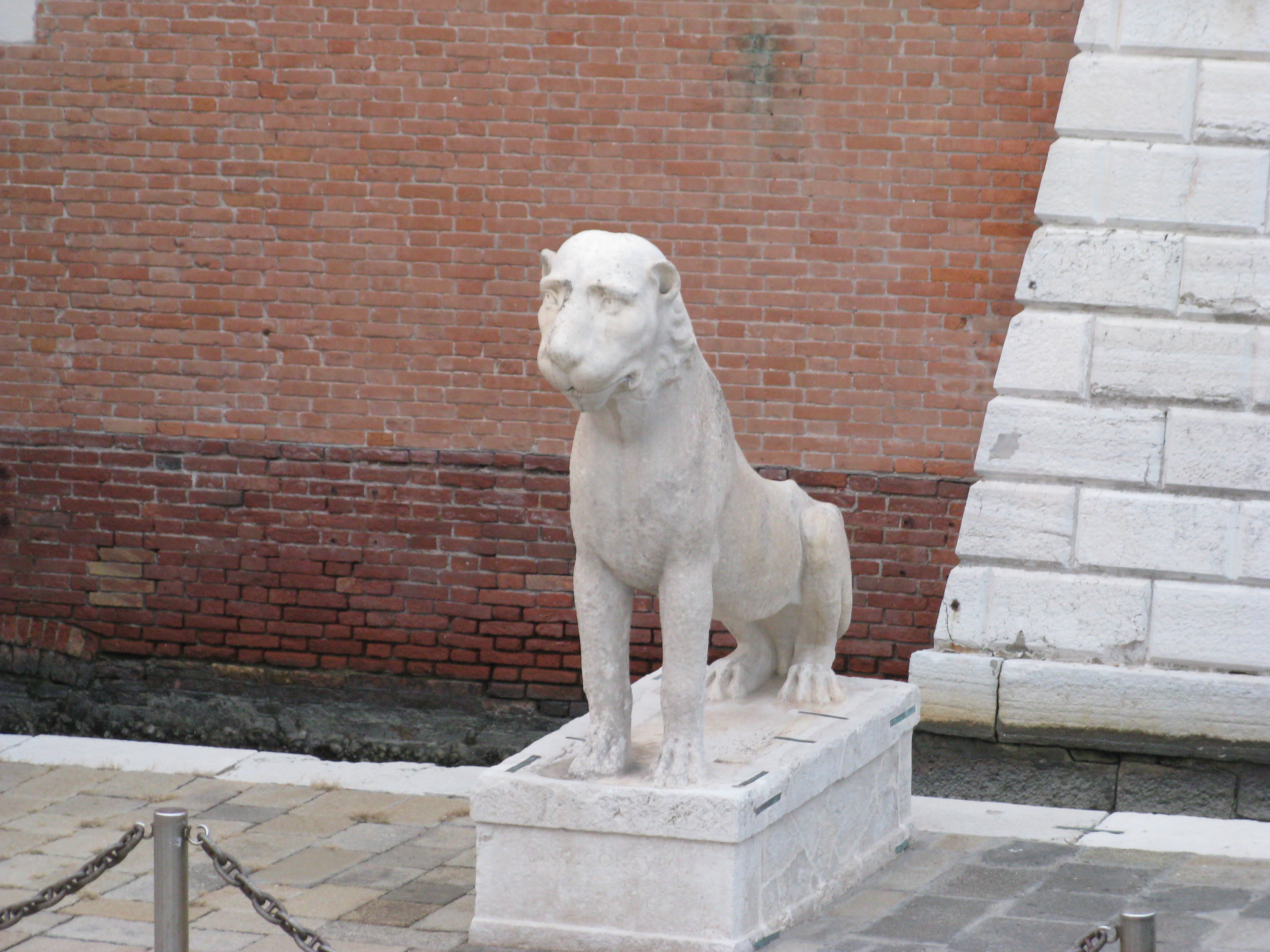 Arsenale (Venice) - Third Ancient Greek lion